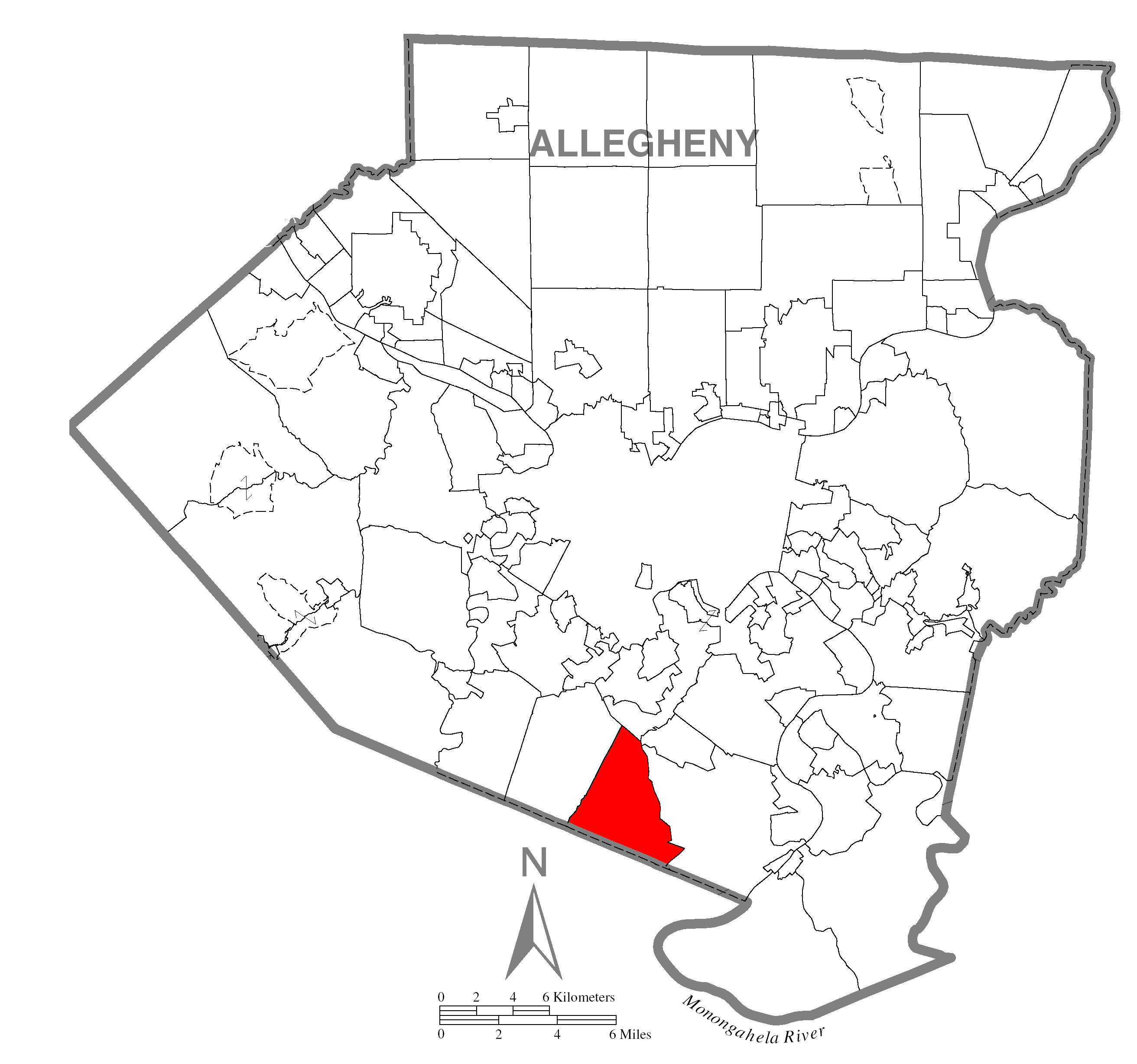 A map of Allegheny County showing South Park Township, Pennsylvania (alternate) highlighted on the map.